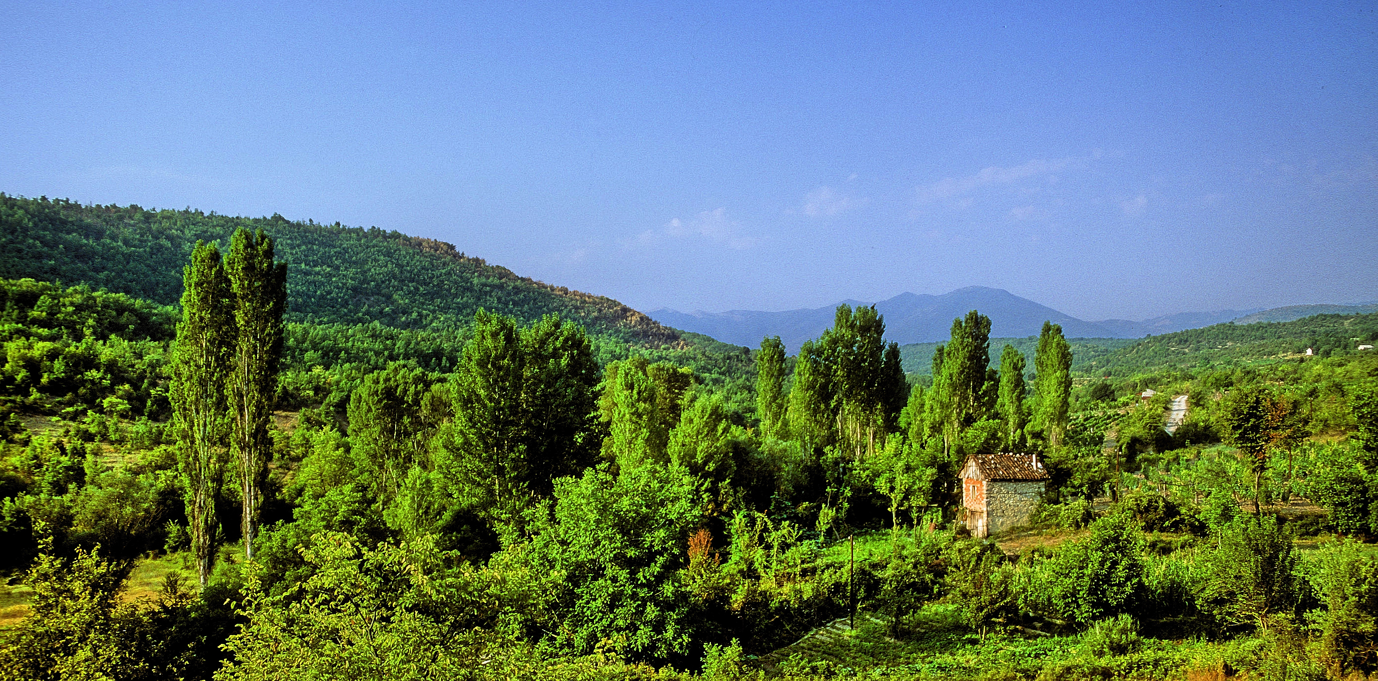 Raec